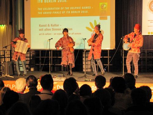 THE CELEBRATION OF THE DELPHIC GAMES – THE GRAND FINALE OF ITB BERLIN 2010 Musical Band Beles, Kazakhstan: Inspired the audience with Kazakh traditional music, a lively show in national costumes.